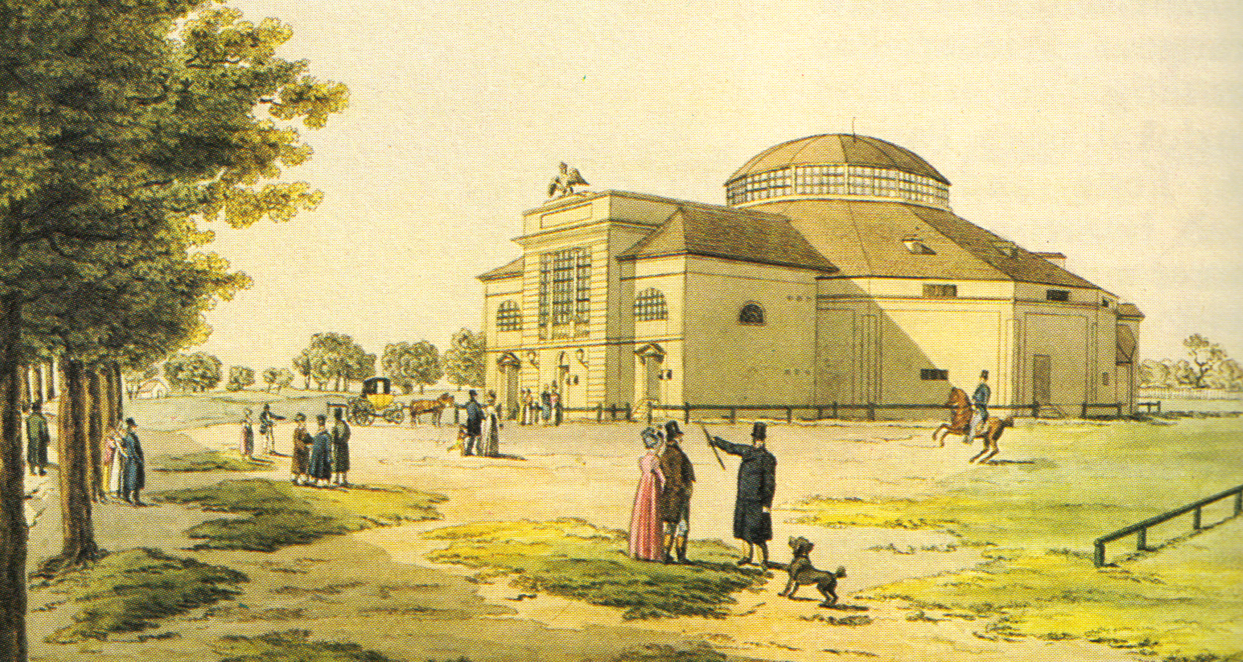 Kornhaeusel: Bach's circus building in Vienna (1808)